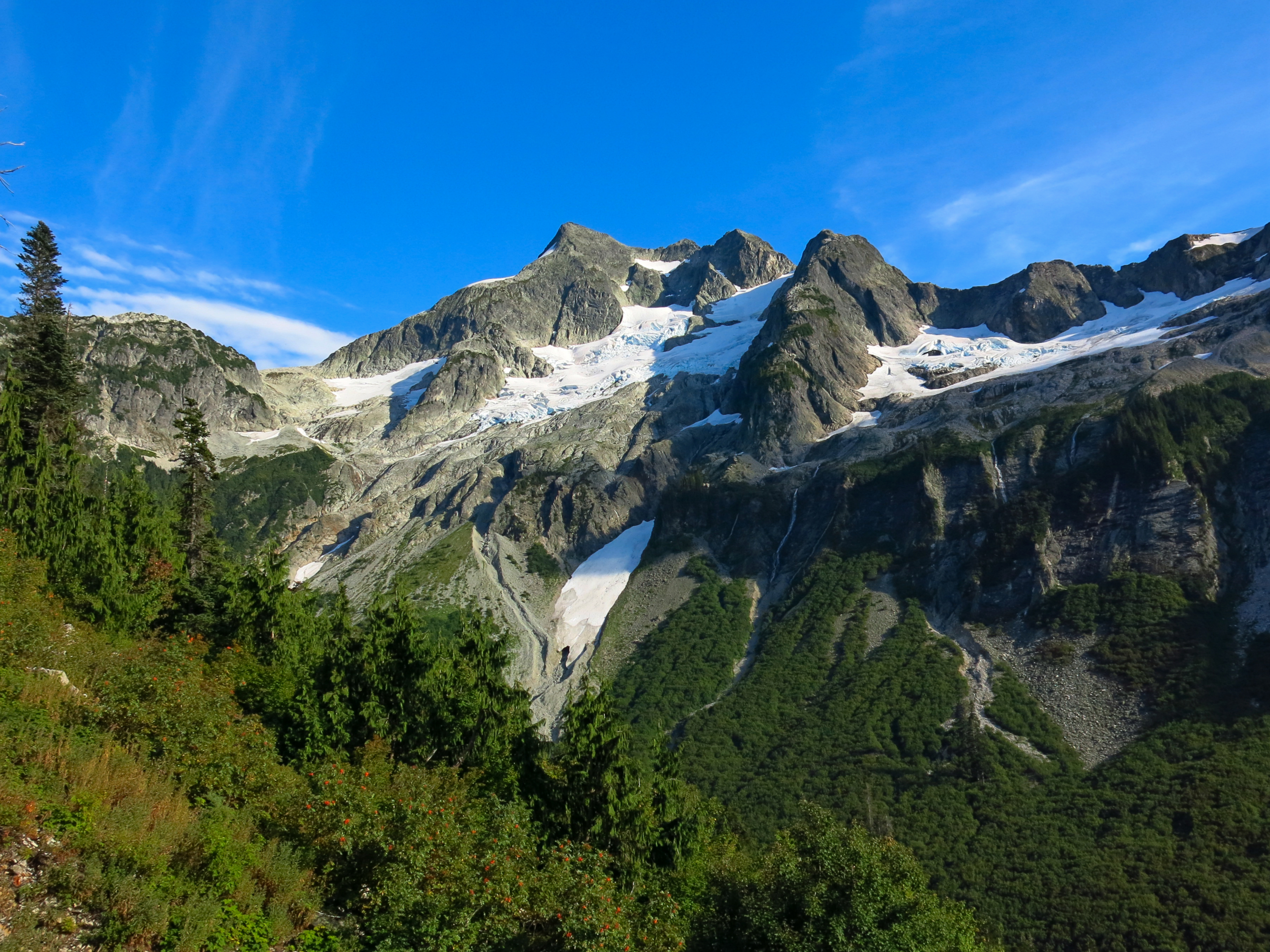 Whatcom Peak seen from Brush Creek Trail. North Cascades National Park